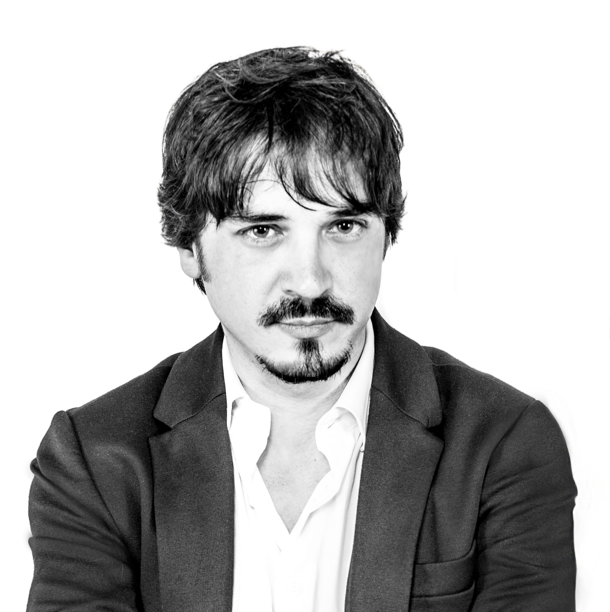 Jesús Calderón, 2016